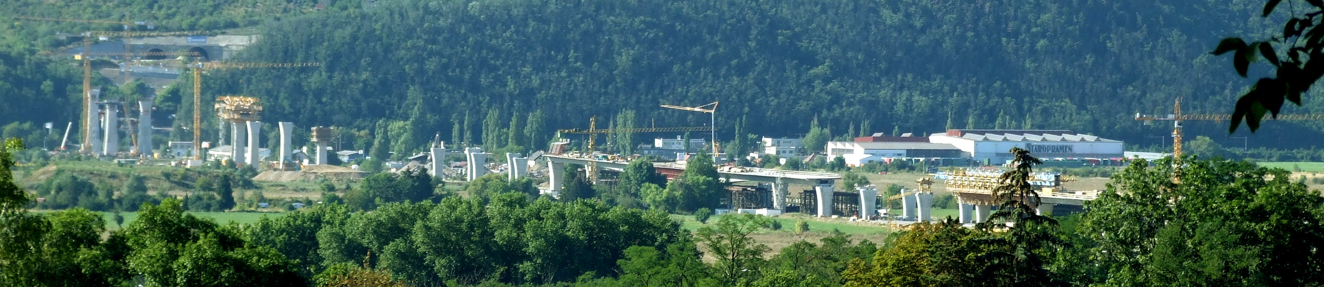 Lahovice city highway ring under construction seen from roughly Zbraslav, Prague, CZhelp